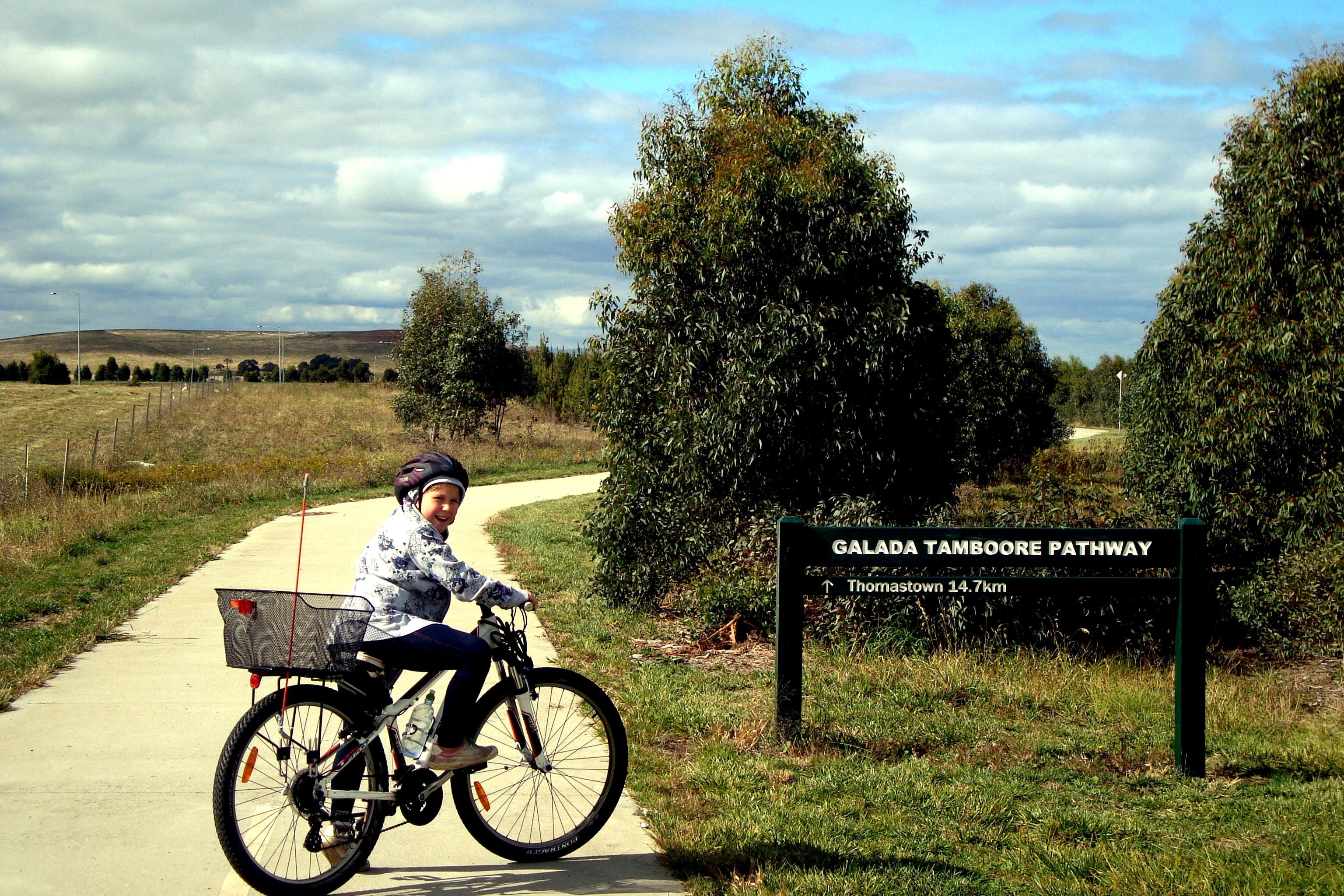 At the start of the Galada Tamboore Cycle Path at Craigieburn. The path follows the M31 Hume Freeway for 14.7km from Craigieburn to Thomastown where it meets the Western Ring Road Path. It was constructed when the Hume Freeway Craigieburn Bypass was built.